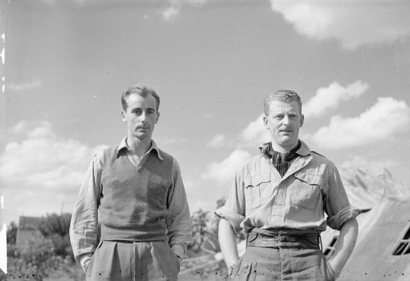 Royal Air Force- Italy,the Balkans and South-east Europe, 1942-1945. the outgoing Commanding Officer of No. 145 Squadron RAF, Squadron Leader N F Duke (left), stands with the unit's new CO, Squadron Leader S W F Daniel, at Fano, Italy. Duke departed the Squadron as the top-scoring fighter pilot in the Mediterranean theatre, having achieved his final victories on 7 September 1944 (two Messerschmitt Bf 109s near Rimini), to achieve a total of 26 and two shared enemy aircraft shot down. Daniel arrived at Fano with a total of 16 and one shared victories, and commanded 145 Squadron until the end of the War.